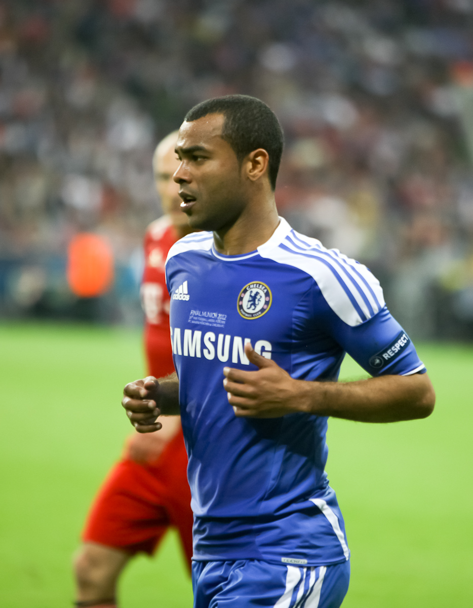 UEFA Champions League Final. FC Bayern München 1-1 Chelsea FC (aet, Chelsea win 4-3 on penalties)